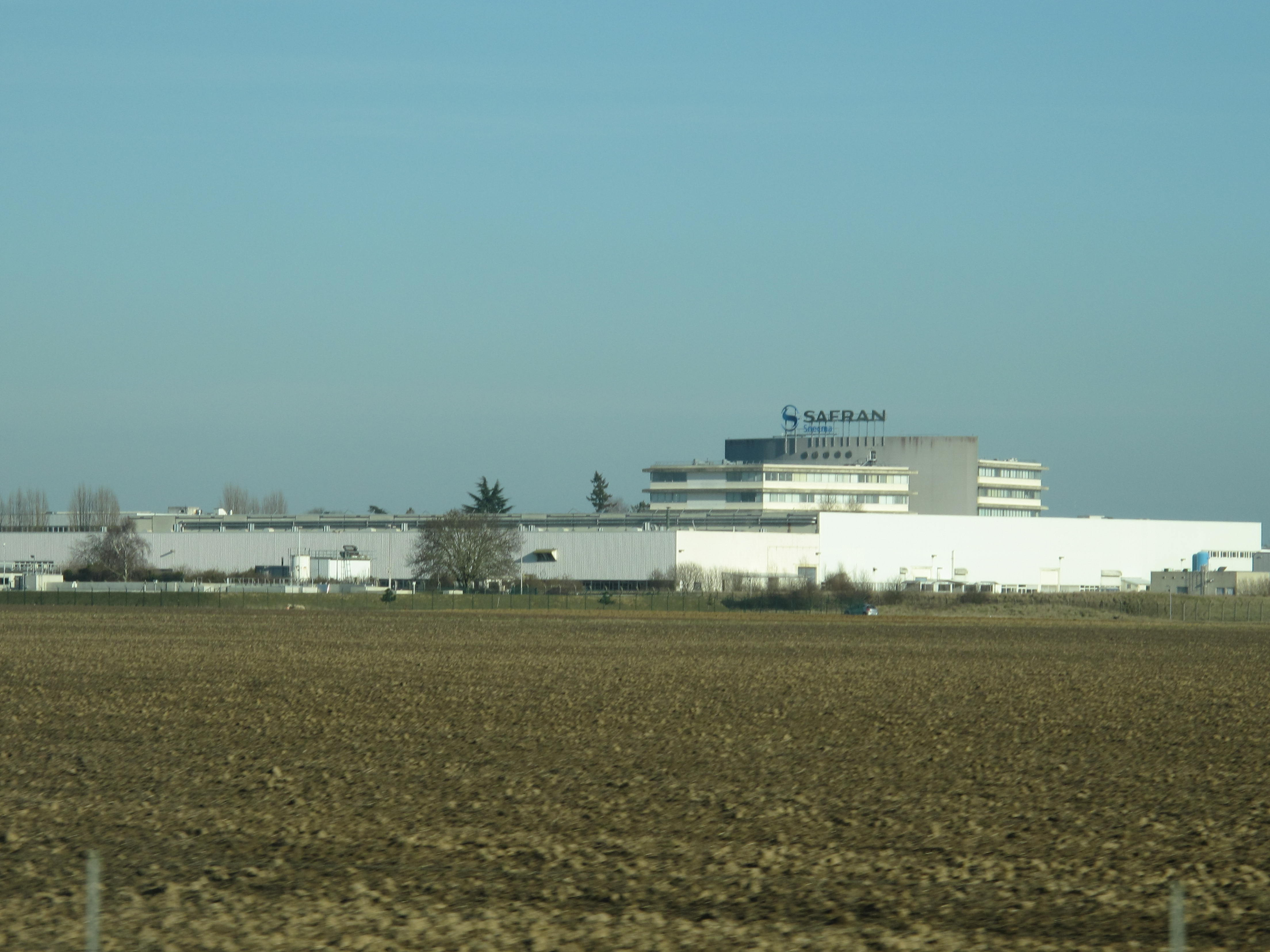 The Safran (formerly SNECMA) factories in Montereau-sur-le-Jard, Villaroche (Seine-et-Marne, France) seen from the on French highway A5B.